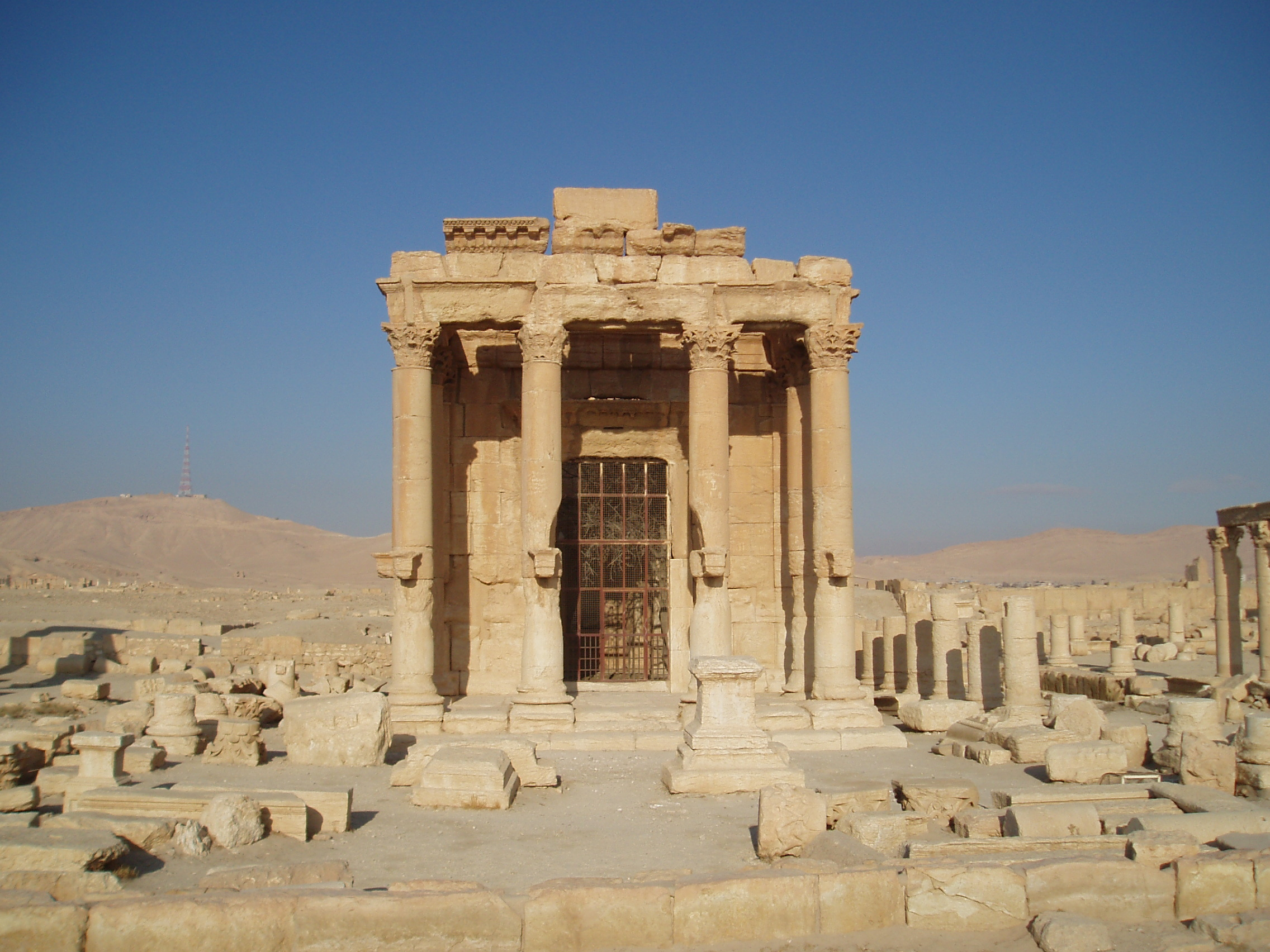 Temple of Baal Shamin